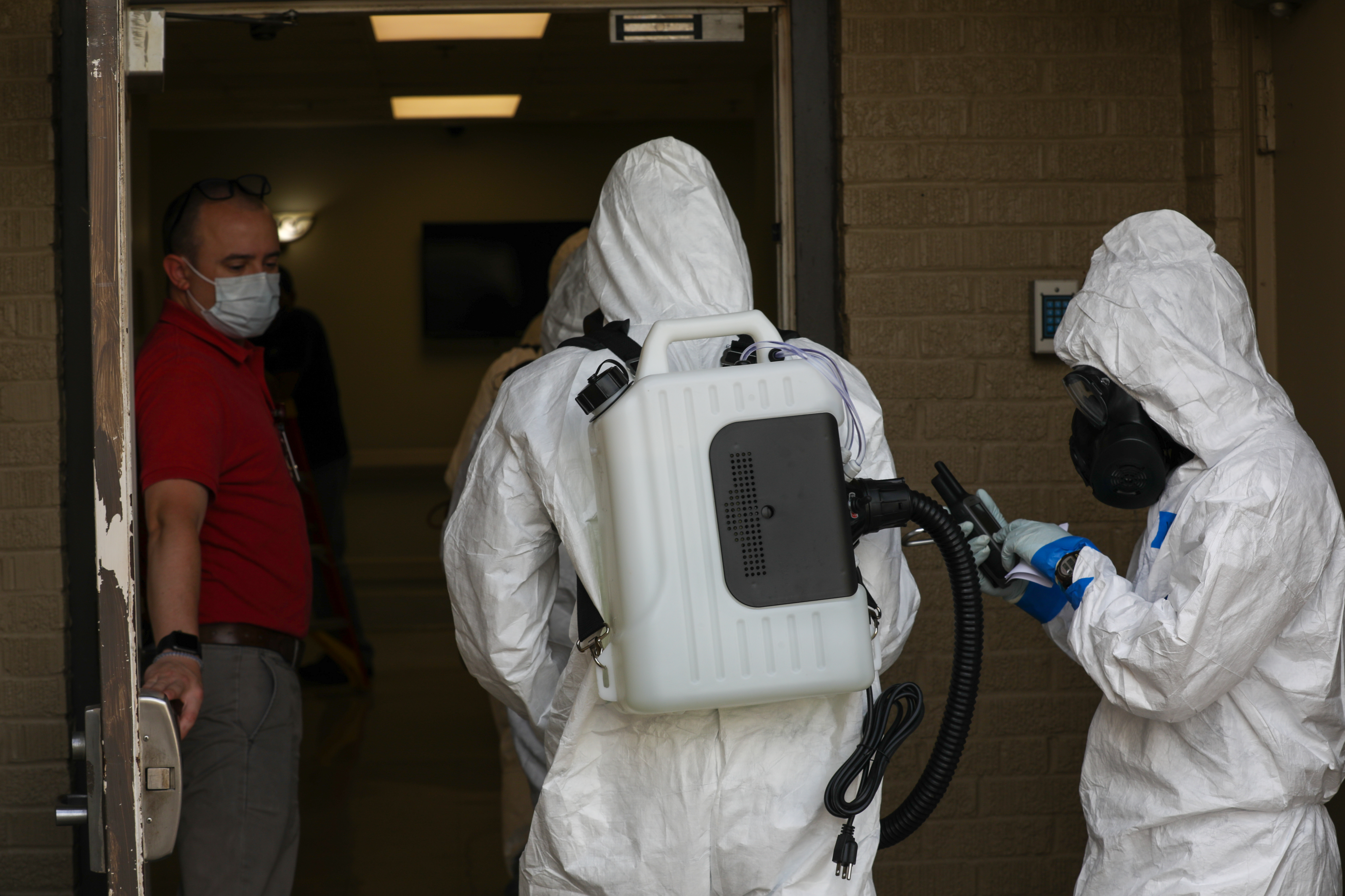 Task Force 31 members enter a medical facility to begin disinfection procedures in Limestone, Ala., April 30, 2020. Alabama Guardsmen use a safe mixture of cleaning solutions and water to help combat the spread of COVID-19 in potential at-risk populations. (U.S. Army photo by Sgt. Samuel Hartley)